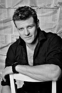 Portrait of the actor Iván Kamarás